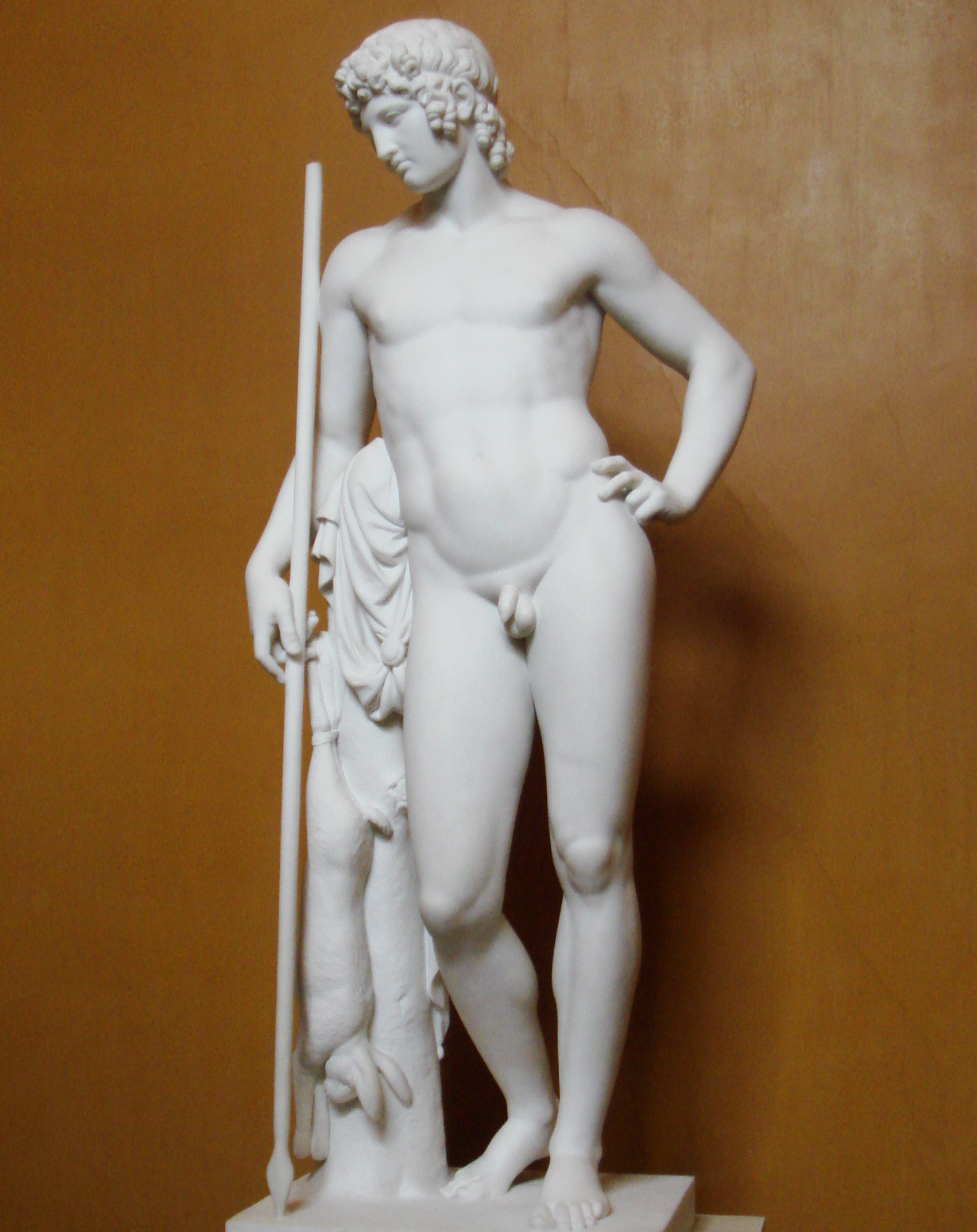 Statue of Adonis of Bertel Thorvaldsen. Museo Thorvaldsen, Copenhagen. Picture by Stefano Bolognini.